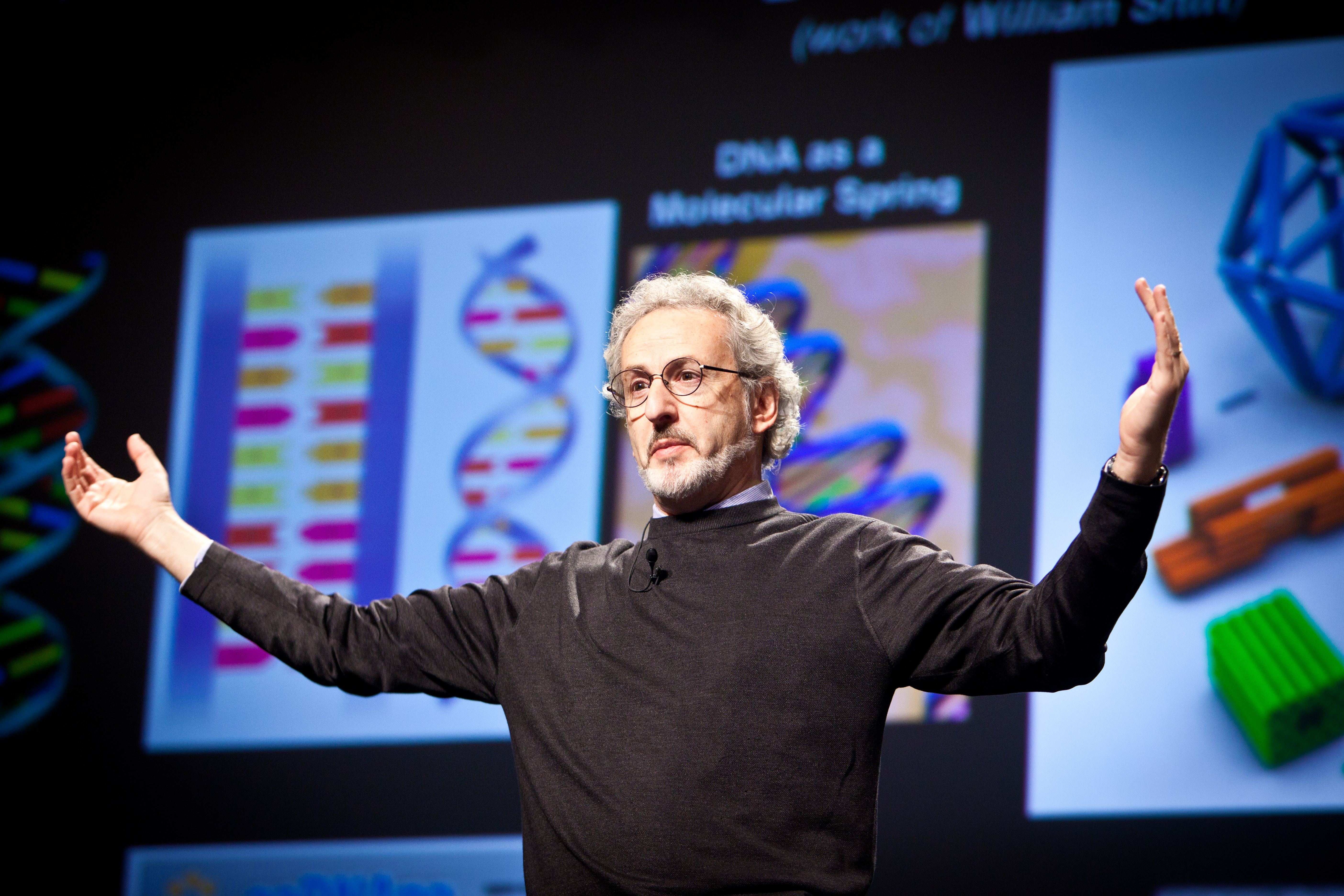 Donald Ingber - PopTech 2010 - Camden, Maine